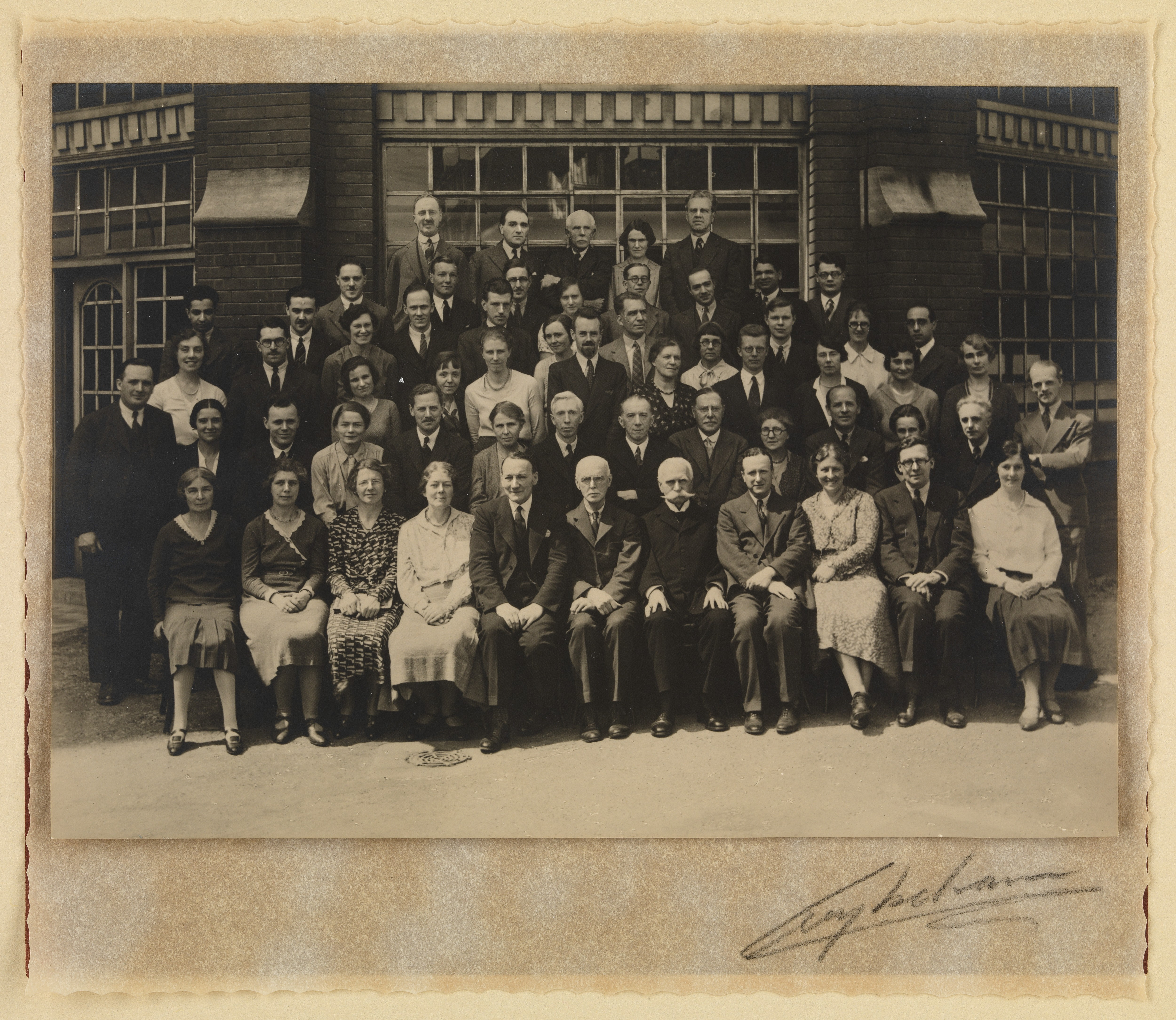 Group photograph of members of the Lister Institute in London (1933) seated and standing outside the Instutute building. Names are provided separately (see image L0068568) Medical Photographic Library Keywords: institute; lister; group; members